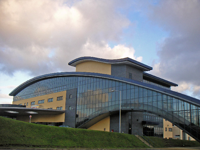 Aberdeen Exhibition & Conference Centre The impressive curved front of the AECC. The actual main part of the exhibition centre is actually a rather depressing looking shed hidden at the rear. Also missing from this photograph is the viewing platform, which gives views across Aberdeen